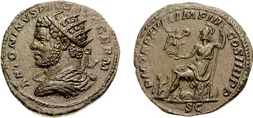 Caracalla. 198-217 AD. Æ Dupondius (10.89 gm, 7h). Struck 214 AD. ANTONINVS PIVS AVG GERM, radiate and draped bust left, seen from behind P M TR P XVII IMP III COS IIII P P, S C in exergue, Roma seated left on cuirass surrounded by arms, helmet under feet, holding Victory in extended right hand and reverted spear in left hand; before her, German kneeling right. RIC IV 530b; BMCRE pg. 482, † note; Cohen 266. Good VF, mottled olive and green with flecks of black, minor smoothing in fields.